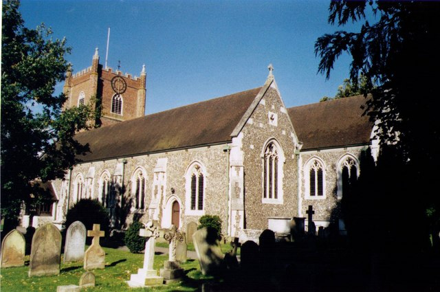 St Mary's parish church, Wargrave, Berkshire, seen from the southeast. The tower is 17th century, but the rest of the church was built in 1916 after its medieval predecessor was destroyed by fire.